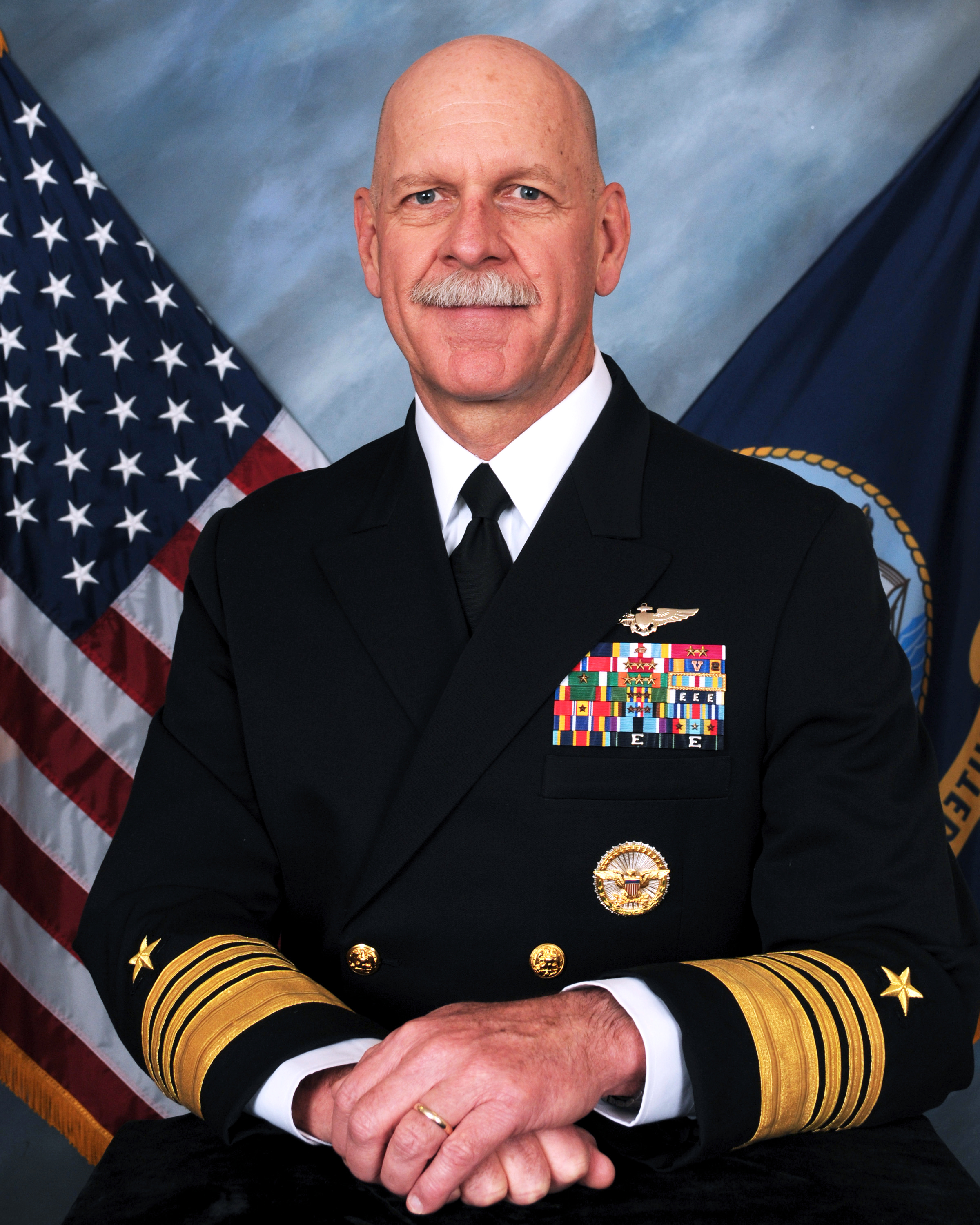 Admiral Scott H. Swift, USN62nd Commander of the U.S. Pacific Fleet